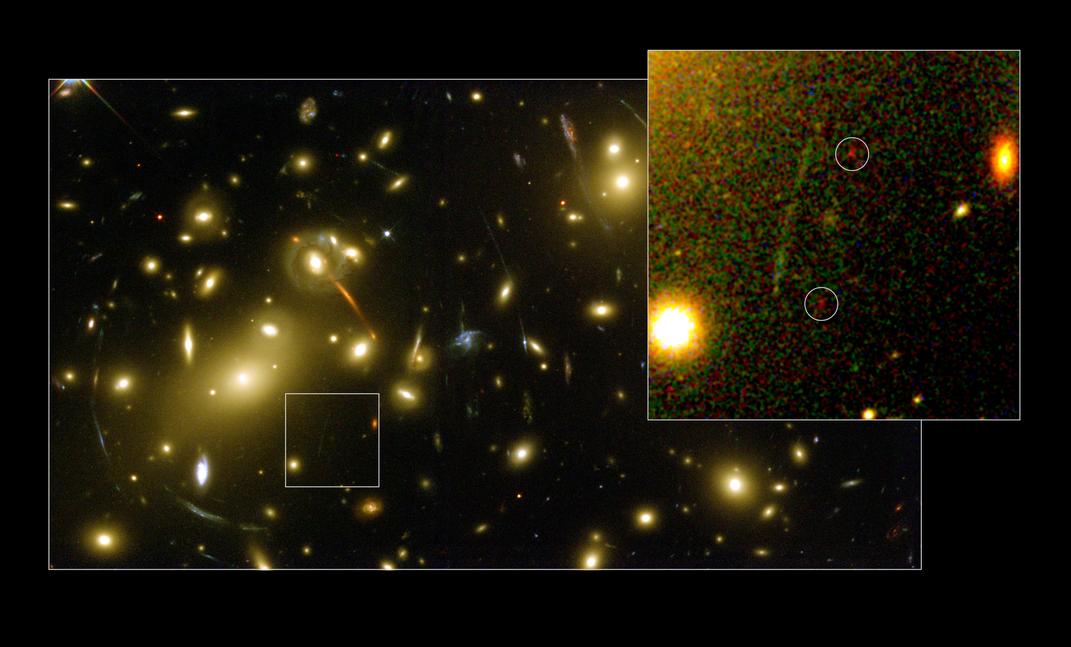 This NASA/ESA Hubble Space Telescope image shows a newly discovered very small, faint galaxy 'building block' found via a unique collaboration between ground- and space-based telescopes. Hubble and the 10 metre Keck Telescopes in Hawaii joined forces using a galaxy cluster which acts as a gravitational lens to detect what scientists believe is one of the smallest and most distant objects ever found. The galaxy cluster Abell 2218 was used by a team of European and American astronomers led by Richard Ellis (Caltech, USA) in their systematic search for intrinsically faint distant star-forming systems. Without the help from this cluster's magnifying power (it magnifies by around 30 times) the galaxy building block would have been undetectable with present facilities. In the image to the right, the object is seen distorted into two nearly identical, very red 'images' by the gravitational lens. The image pair represents the magnified result of a single background object gravitationally lensed by Abell 2218 and viewed at a distance of 13.4 billion light-years. The intriguing object contains only one million stars, far fewer than a mature galaxy, and Ellis and co-workers believe it is very young. Such young star-forming systems of low mass at early cosmic times are likely to be the objects from which the mature galaxies around us today have formed. In the image to the left, the full overview of the galaxy cluster Abell 2218 is seen. This image was taken by Hubble in 1999 during the Early Release Observations made immediately after the Hubble Servicing Mission 3A.